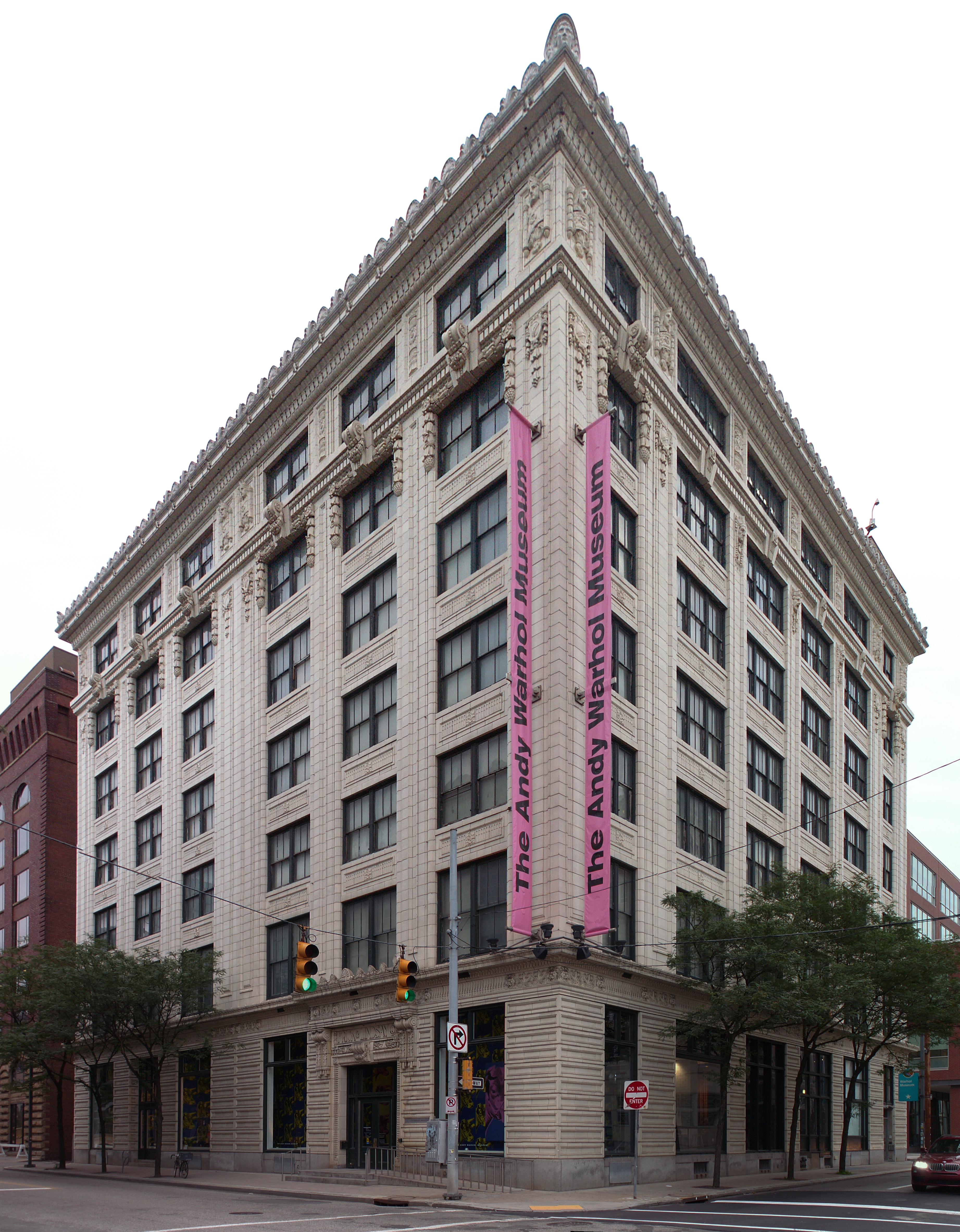 The Andy Warhol Museum (former Frick & Lindsay Co. building), Pittsburgh